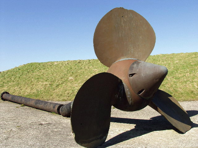 Propeller salvaged from the wreck of British cruiser HMS Hampshire, at Lyness, Orkney, UK.